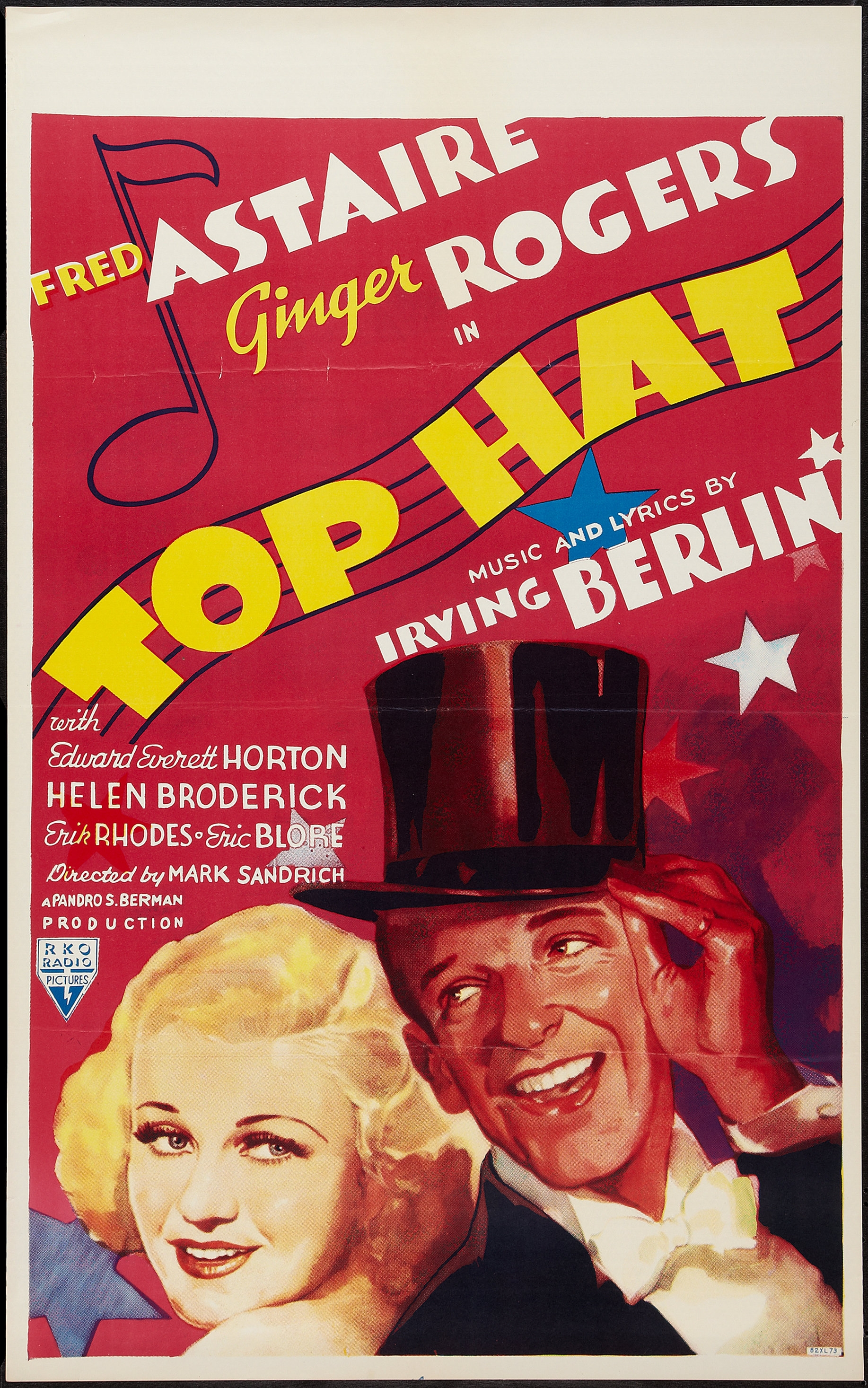 Low-res image of original poster for the film Top Hat (1935), featuring stars Ginger Rogers and Fred Astaire Corporate author/original rights holder: Radio-Keith-Orpheum Corp./Radio Pictures Inc. Source: Scan from private collection Licensing: PD-Pre1964 Public domain explanation A search of U.S. copyright renewal records for 1962 and 1963 ([1], [2], [3], [4]) reveals no evidence that the then corporate heir to the corporate author of the work--RKO General--renewed copyrights to this poster or any collection of posters or any collection of material that might encompass this poster as would have been required to maintain copyright protection, if any. There is no evidence that the work's corporate author's descendant corporation--RKO Pictures LLC--claims or has ever claimed copyright on the image.